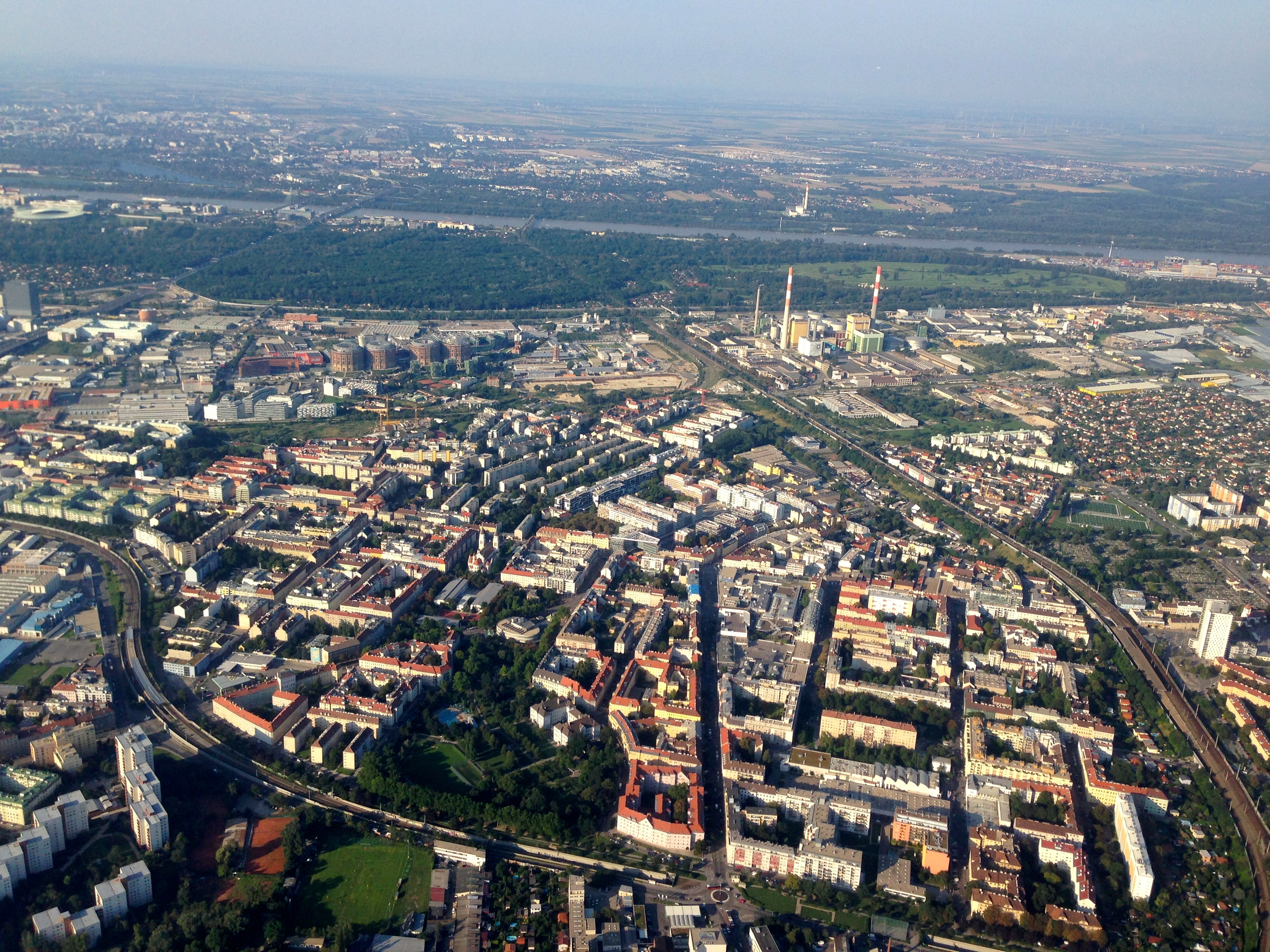 Landing in Vienna on August 2, 2014. Window seat on the pilot’s side. Approach takes you over the city of Vienna and, it was a beautiful day.